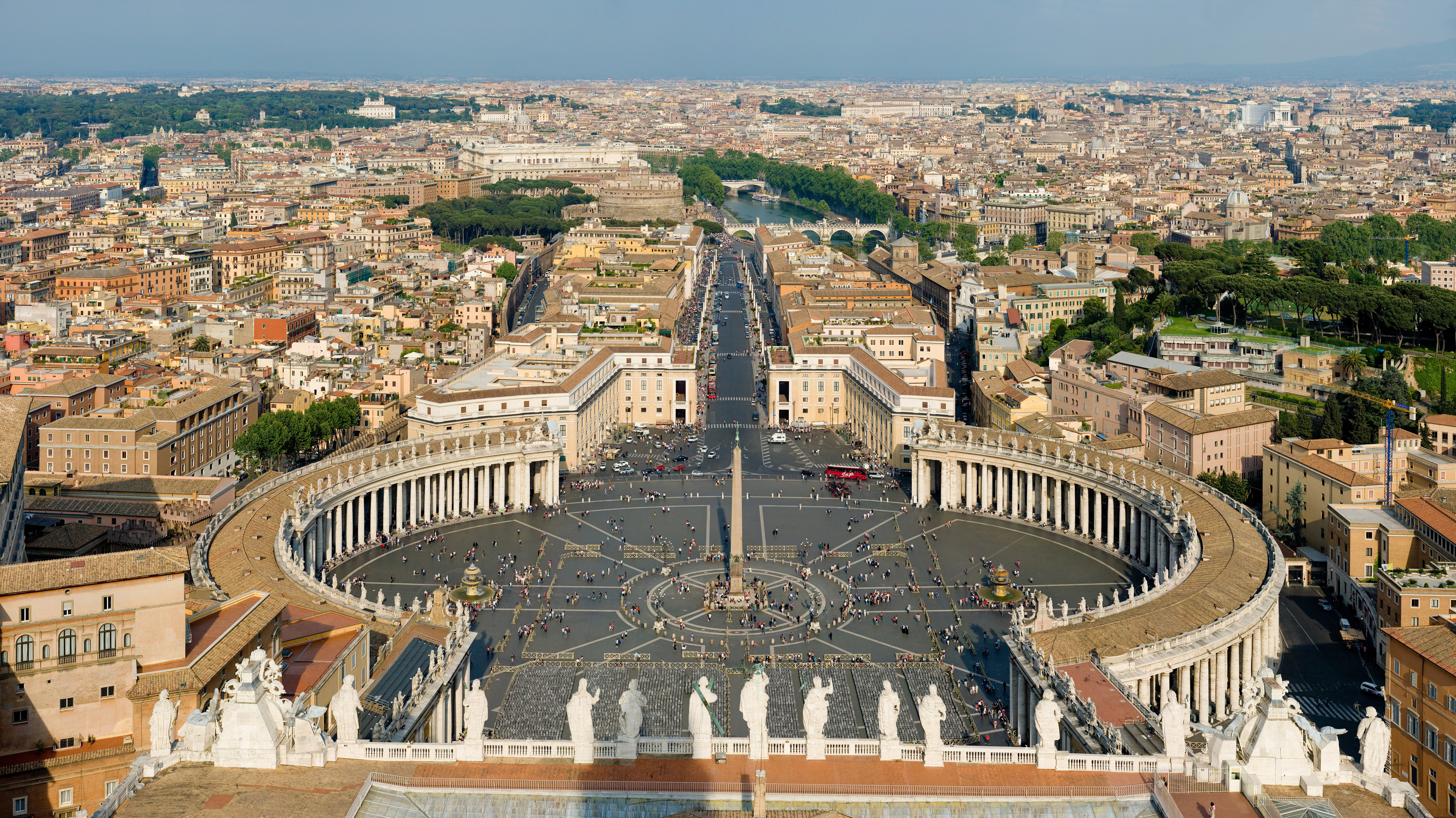 A 5x6 segment panoramic image taken by myself with a Canon 5D and 70-200mm f/2.8L lens from the dome of St Peter's in Vatican City in Rome.